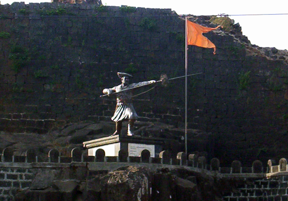 Statue at Panhala Fort, Maharashtra, India